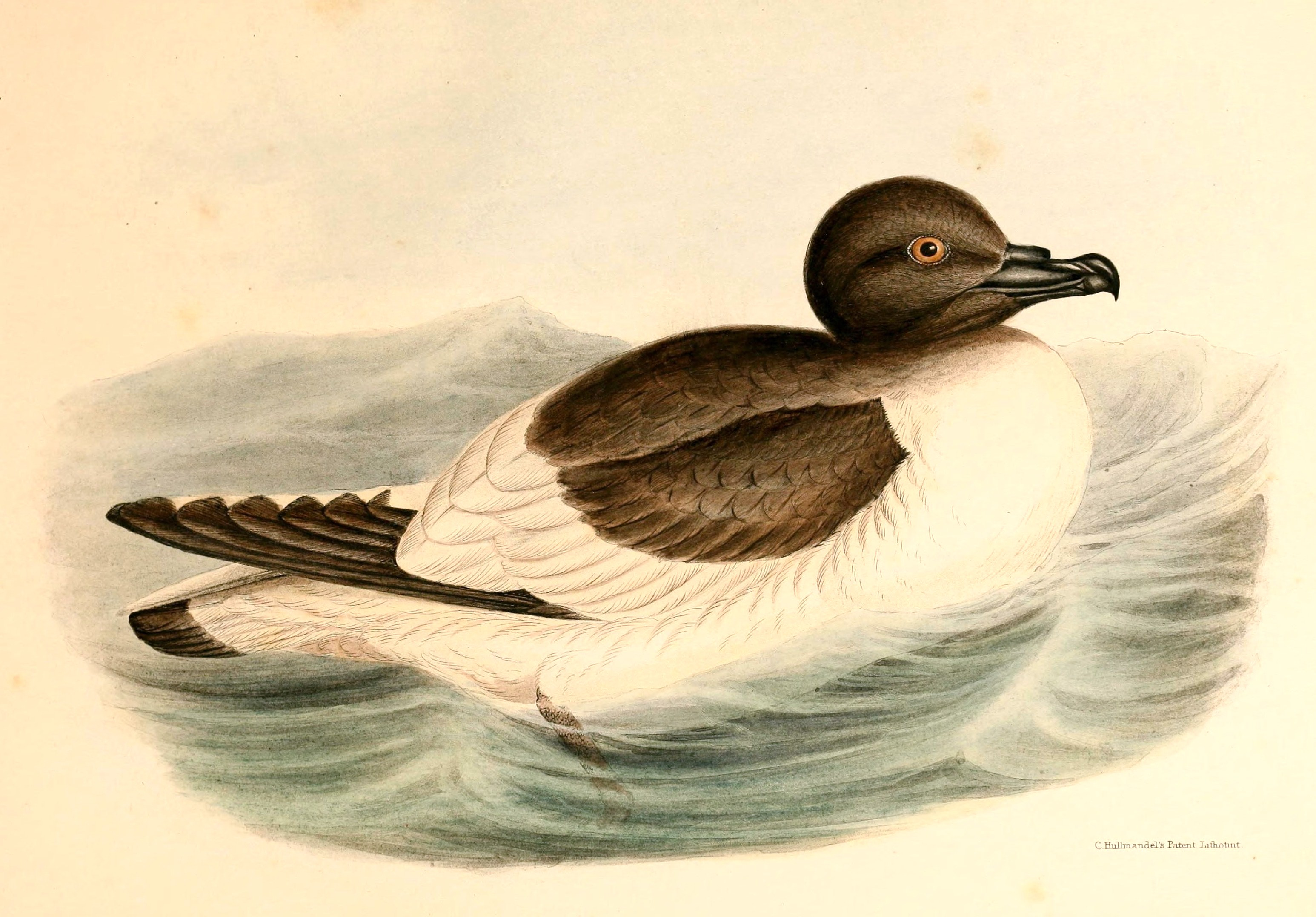 « Procellaria antarctica » = Thalassoica antarctica (Antarctic Petrel)